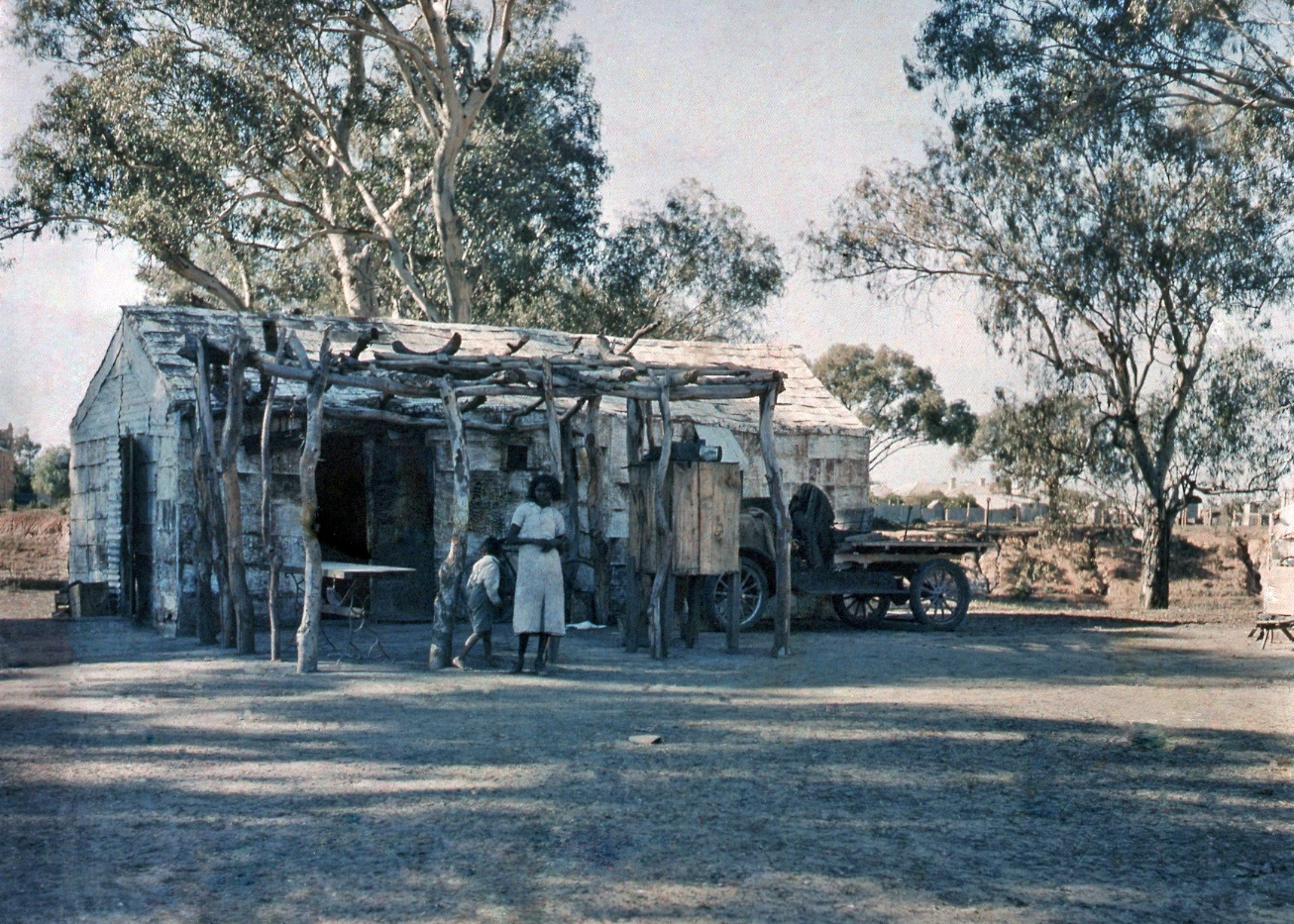 Format: Glass slide, Dufaycolour Find more detailed information about this photographic collection: .au/item/itemDetailPaged.aspx?itemID=937270 Search for more great images in the State Library's collections: .au/search/SimpleSearch.aspx From the collection of the State Library of New South Wales